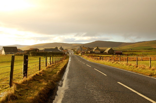 A964 through Orphir Village Looking WSW towards Orphir Village, along the A964 in the direction of Houton.